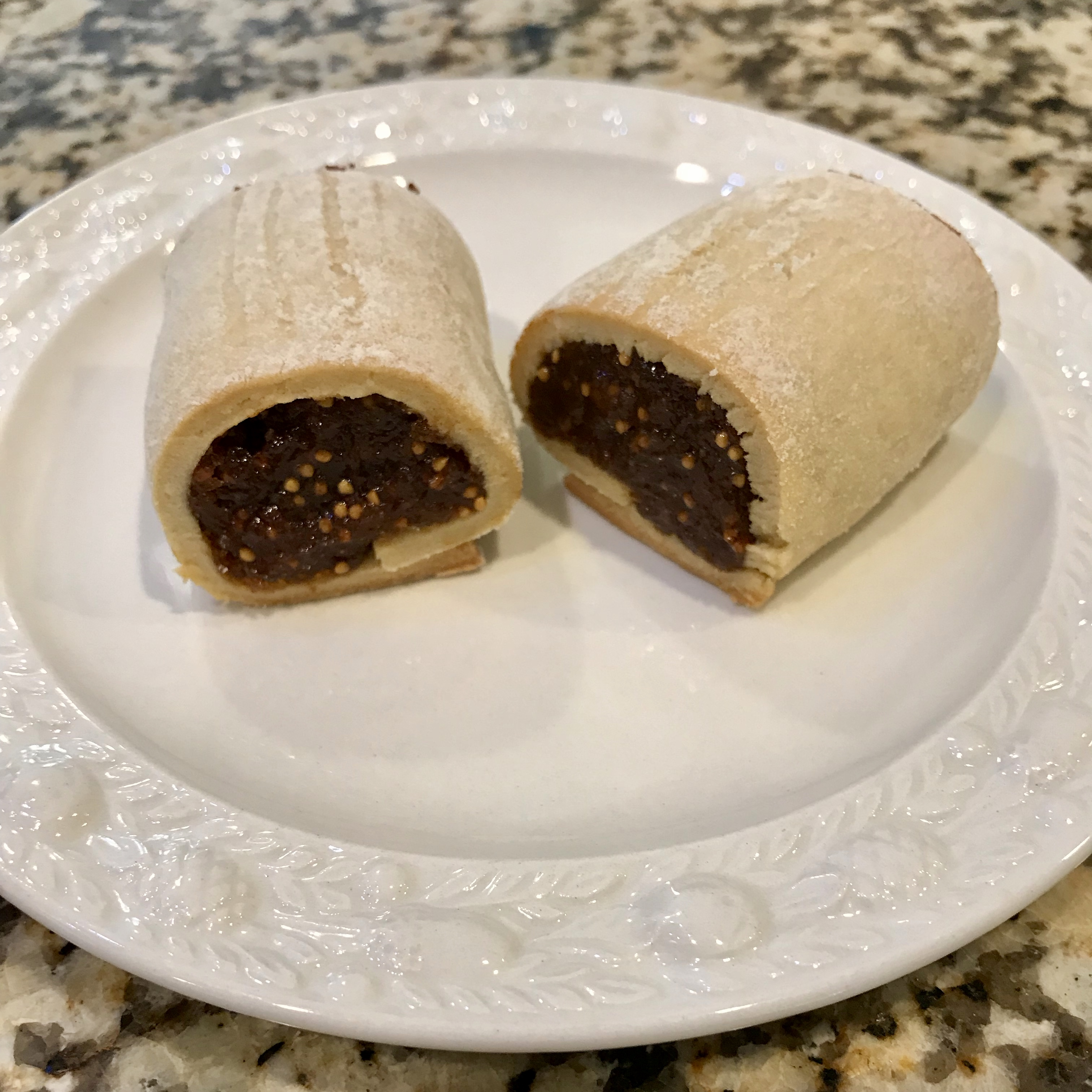 Homemade fig rolls from a British recipe, pastry dough wrapped around a filling of fig jam, then baked